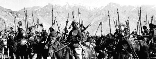 Photograph of Tibetan soldiers in ceremonial costumes supposed to represent Imperial-period Tibetan soldiers. Taken by Lt. Col. Ilya Tolstoy and Capt. Brooke Dolan in 1942-3.